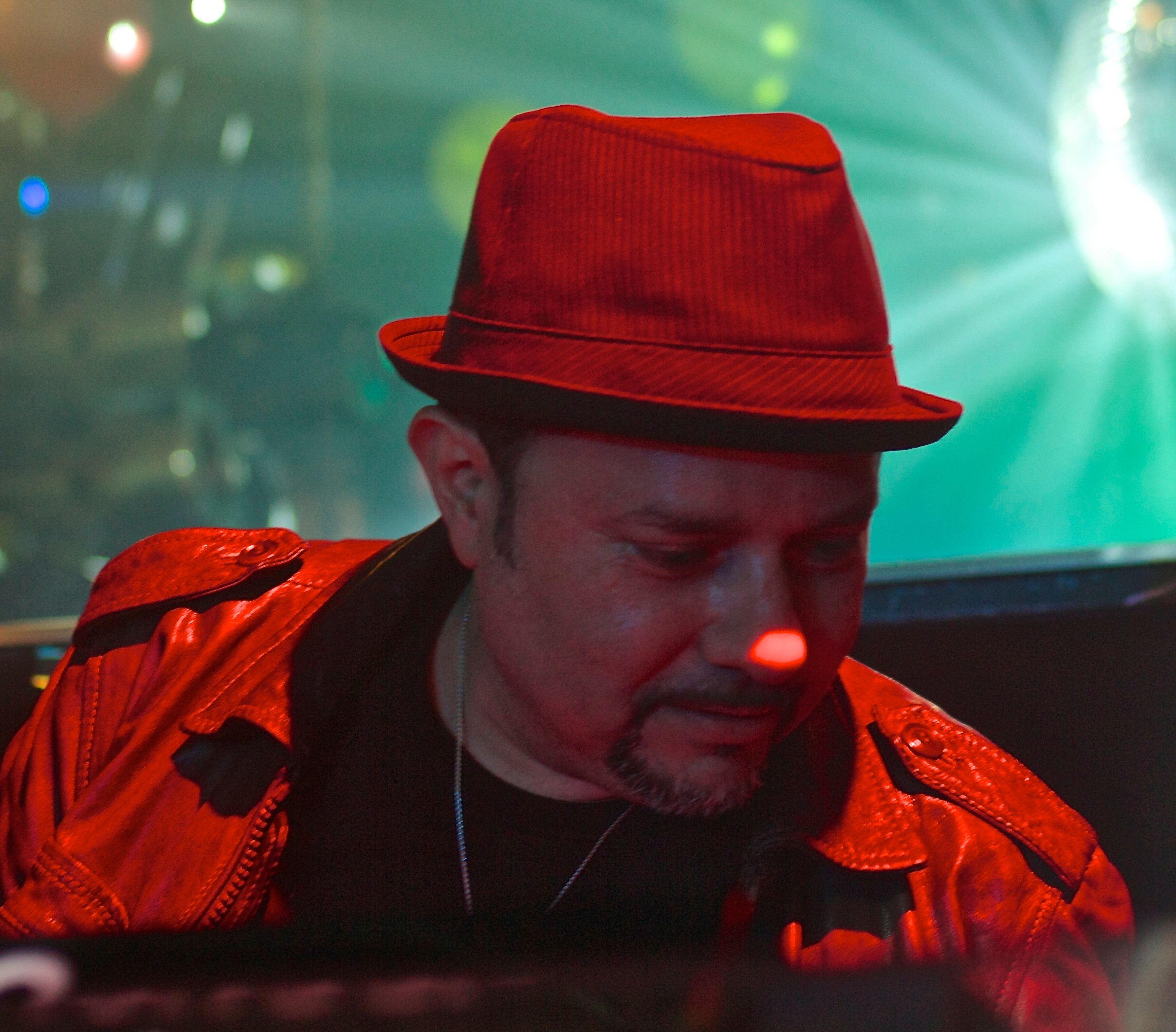 DJ "Little" Louie Vega from New York City. One half of the DJ duo Masters At Work. Photo taken at club Air, Tokyo - April 29, 2014. Bringing his NYC residency party "Dance Ritual" abroad.